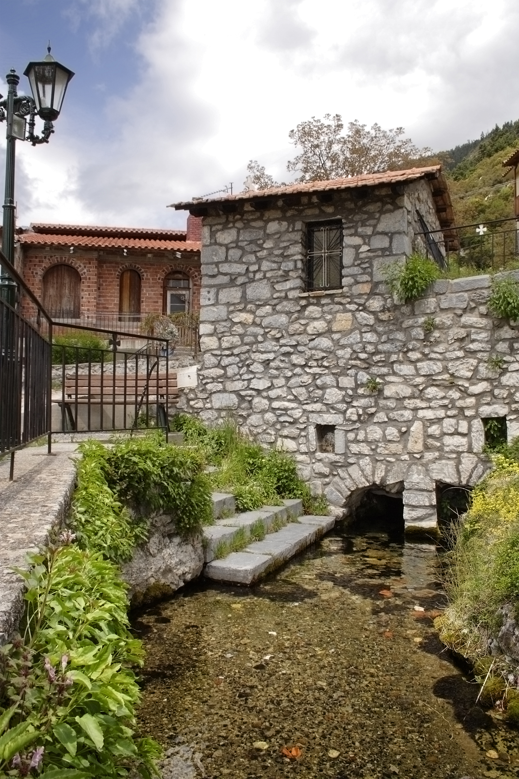 Alonistaina, with its 1150 m in the Mainalo mountains is one of the highest villages in Arcadia. The small traditional settlement is situated 6 km southeast of Vytina. The village is known for its abundant karst springs and fountains. The largest karst spring, Kefalovriso, is roofed below a well-renovated chapel. Chapel and spring are dedicated to Saint Nicholaos.